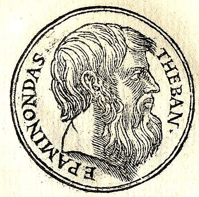 Epaminondas was a Theban general and statesman of the 4th century BC who transformed the Ancient Greek city-state of Thebes, leading it out of Spartan subjugation into a preeminent position in Greek politics.